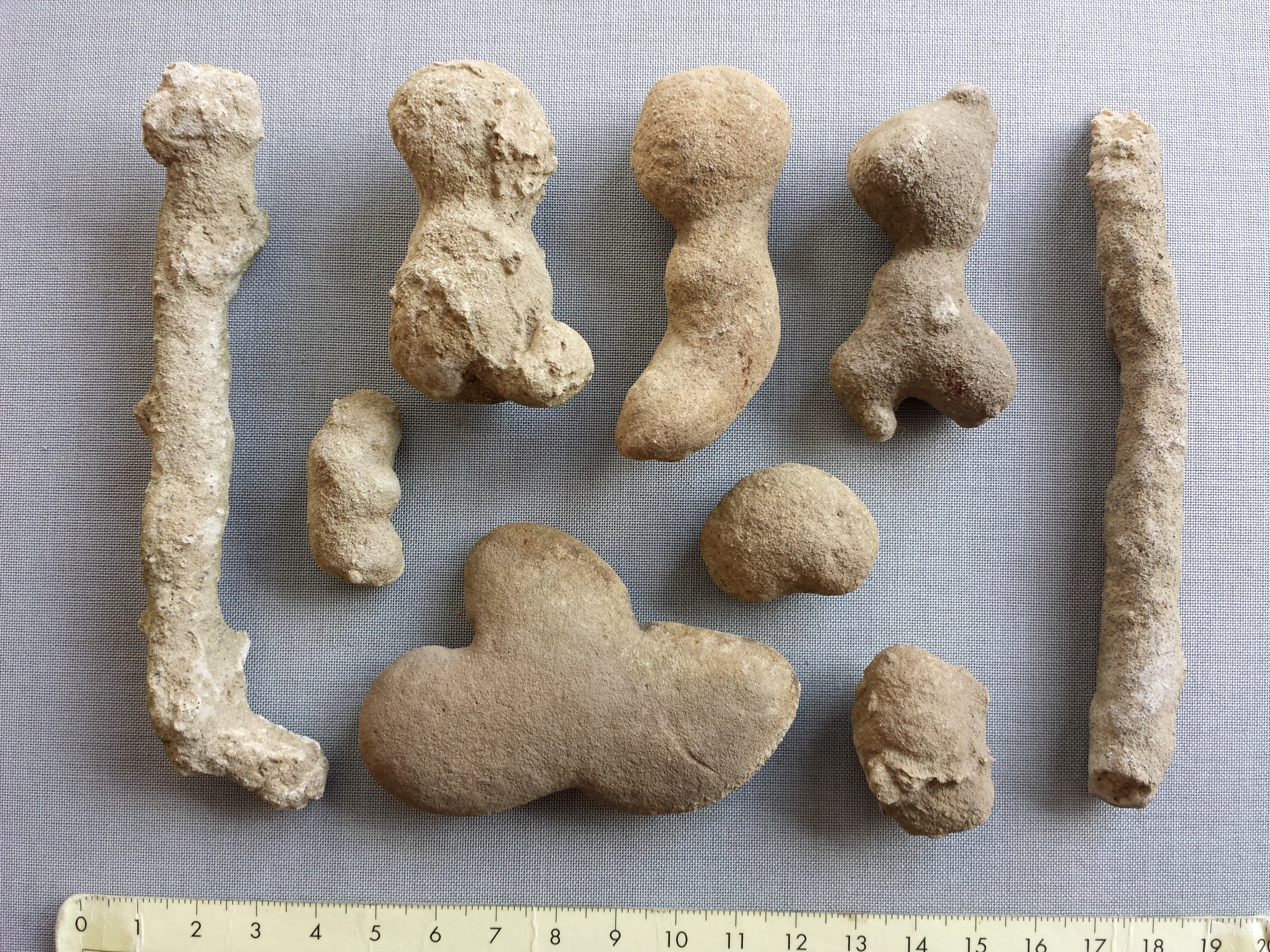 Osteokolls from a loess slope in Weinviertel (Ulrichskirchen-Schleinbach, district Mistelbach, Lower Austria)